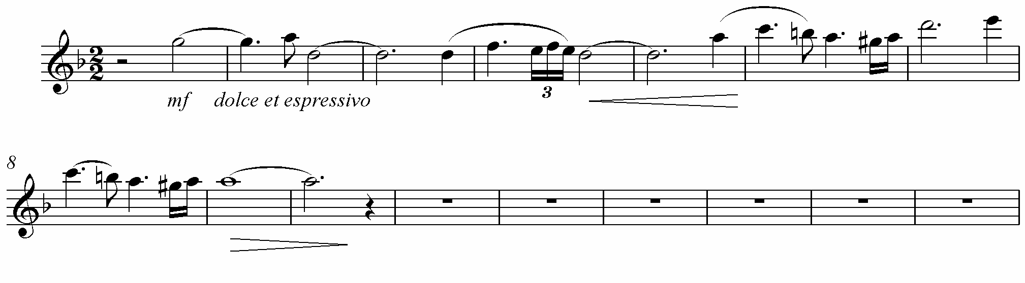 sheet music excerpt made in Sibelius